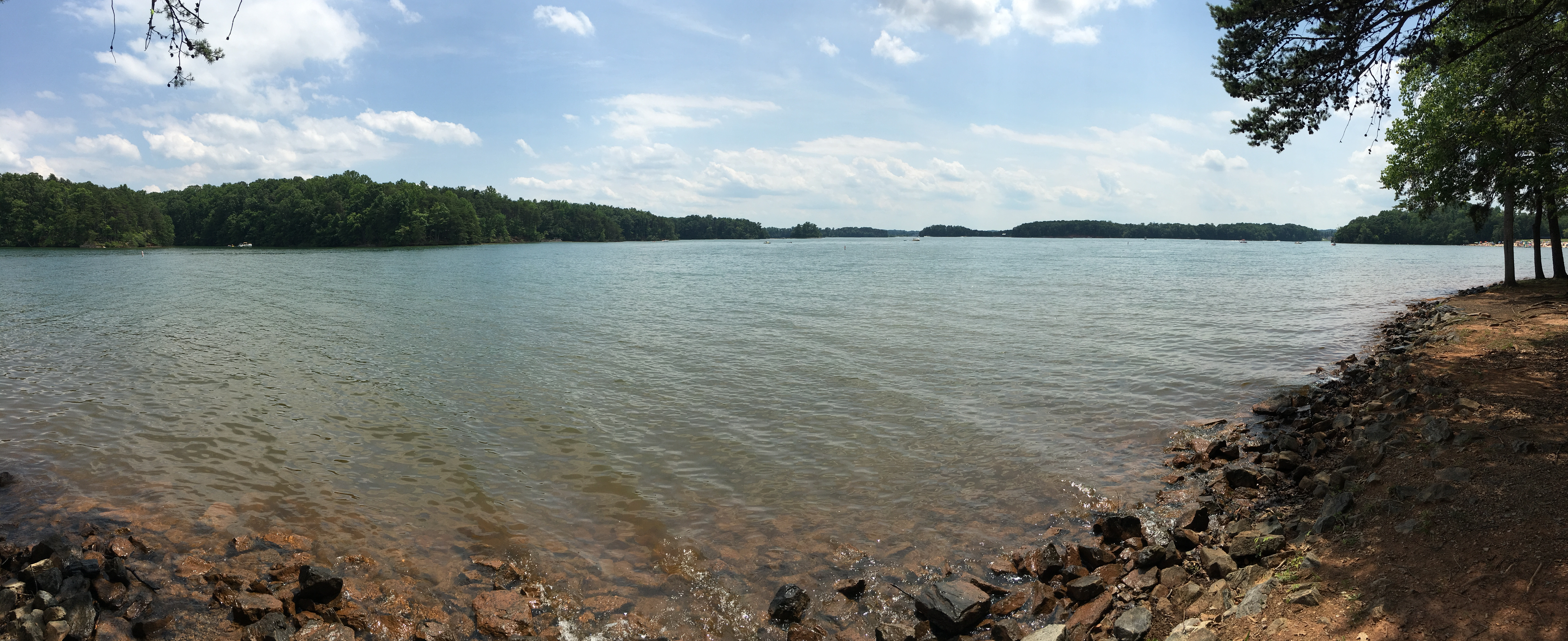 View of the Smith Mountain Lake reservoir in Smith Mountain Lake State Park in southwestern Virginia